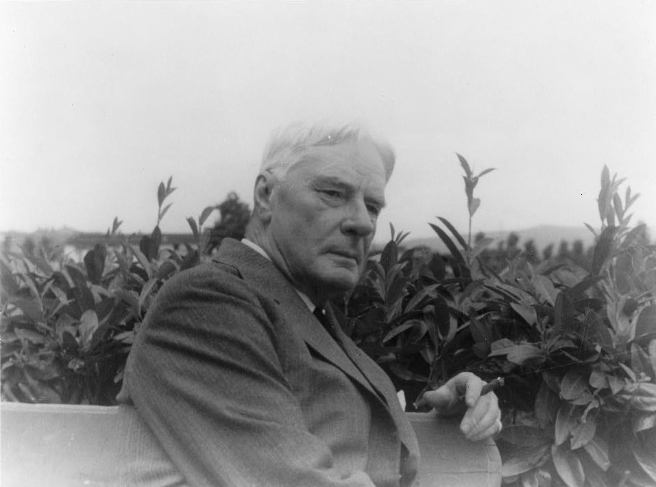 Norman Douglas, photographed by Carl Van Vechten on the Arno, Florence (Italy), 1935 June 23.